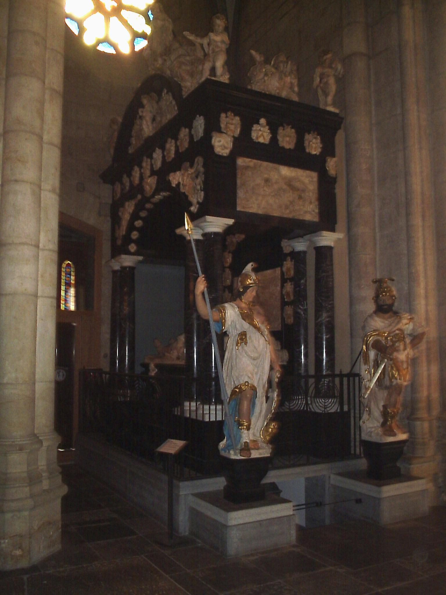 Photo by Harri Blomberg.